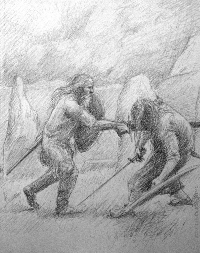 Pencil sketch by Jake Powning showing a holmgang duel in a stone circle.